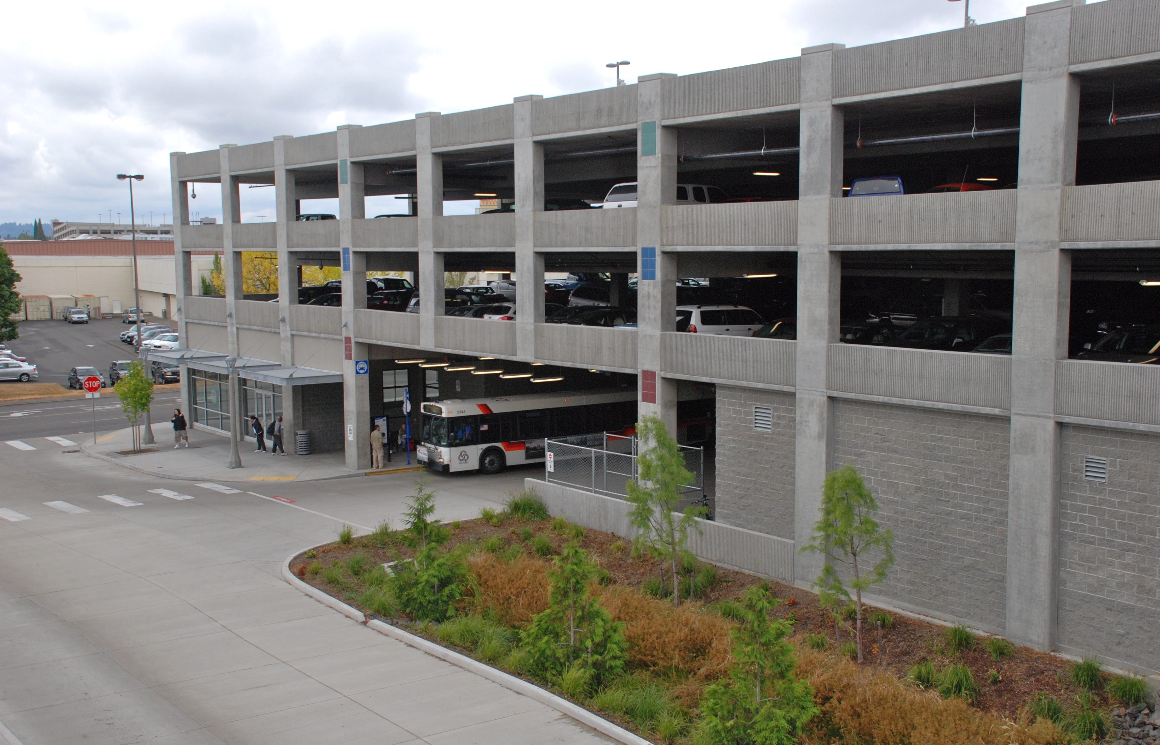 TriMet's second Clackamas Town Center Transit Center opened in 2009 and is located to the east of the shopping mall. (The original Clackamas Town Center Transit Center opened in 1981 and was located on the north side of the mall.) Uniquely among all TriMet transit centers, buses laying over at this 2009-opened facility do so in an area that is off-limits to passengers, and passengers are allowed to board only when the bus is ready to depart, and all boarding for all routes takes place at a single stop. This view from the stairway leading to the MAX station shows the three-story park-and-ride garage and a bus loading at the departure stop. The building in the lefthand background is the back of the J. C. Penney store.